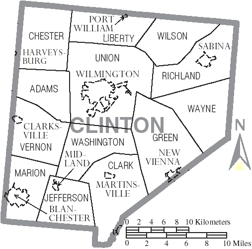 Map of Clinton County, Ohio, United States with township and municipal boundaries